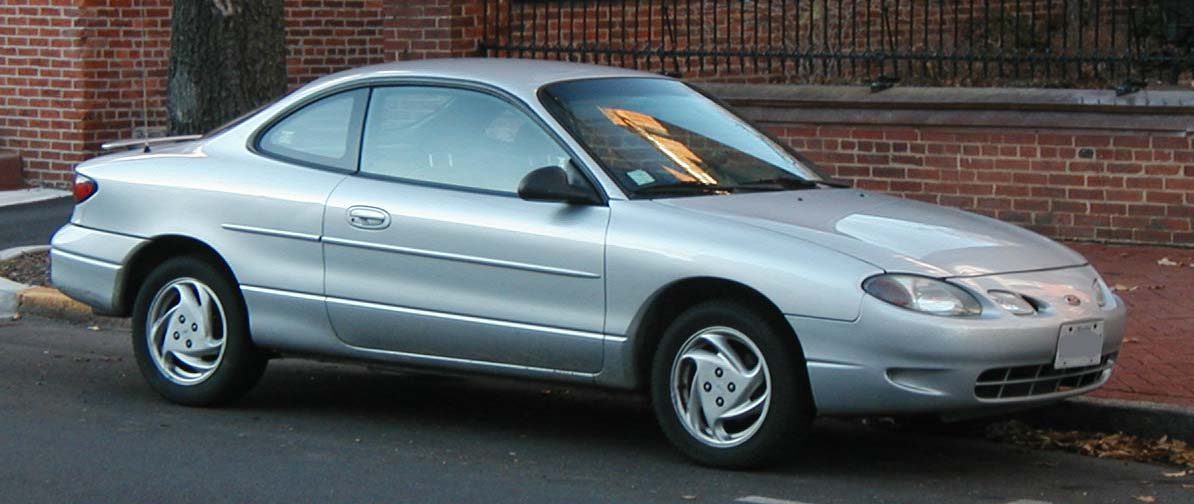 1998-2002 Ford ZX2 photographed in USA.